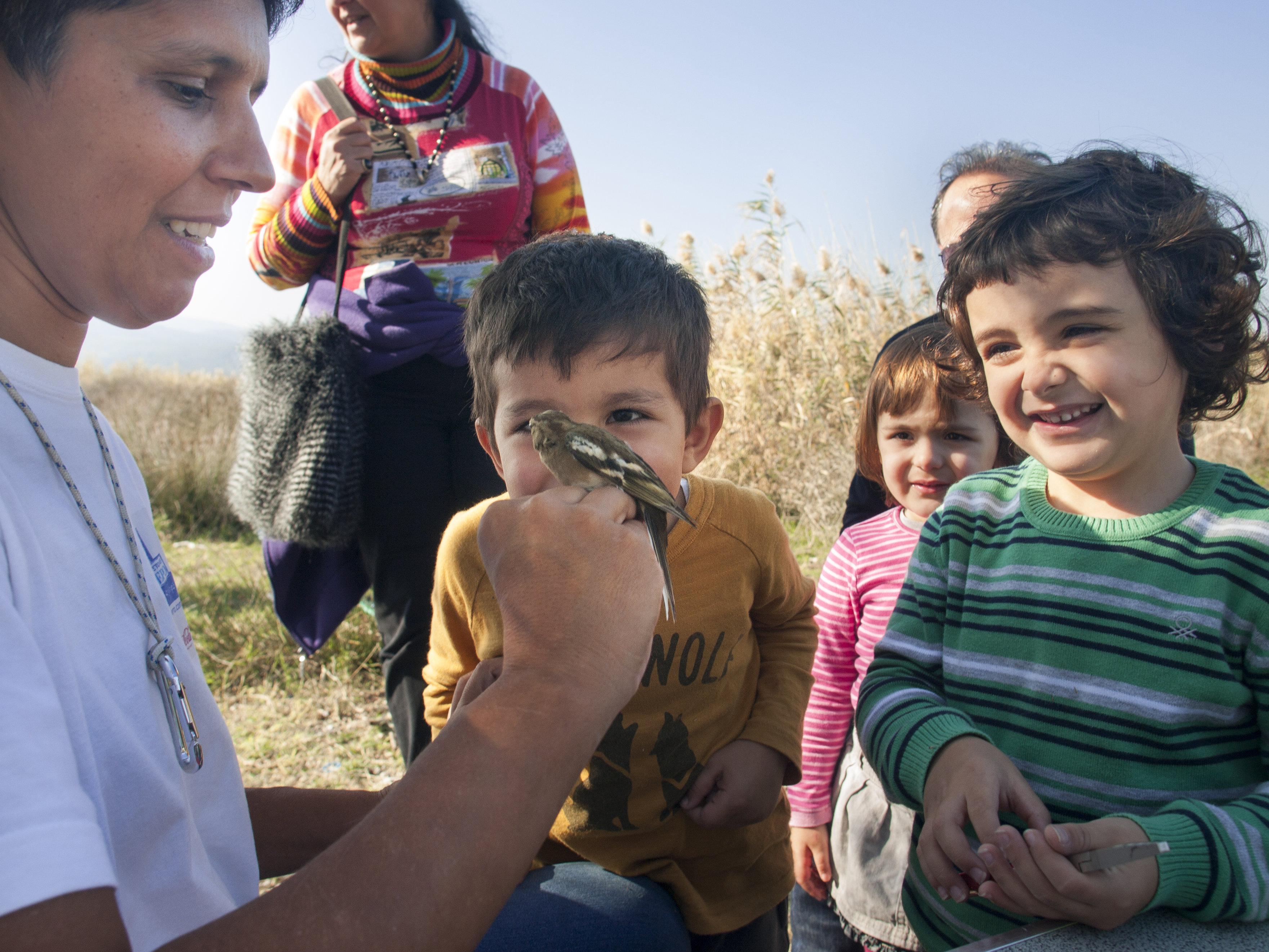 Students watch a bird ringing activity during "A day at the wetland", organised by environmental group WWF. The same individual, an adult Fringilla coelebs, had been caught again in the same area last year. Lesvos, Greece, 2015, November 15.